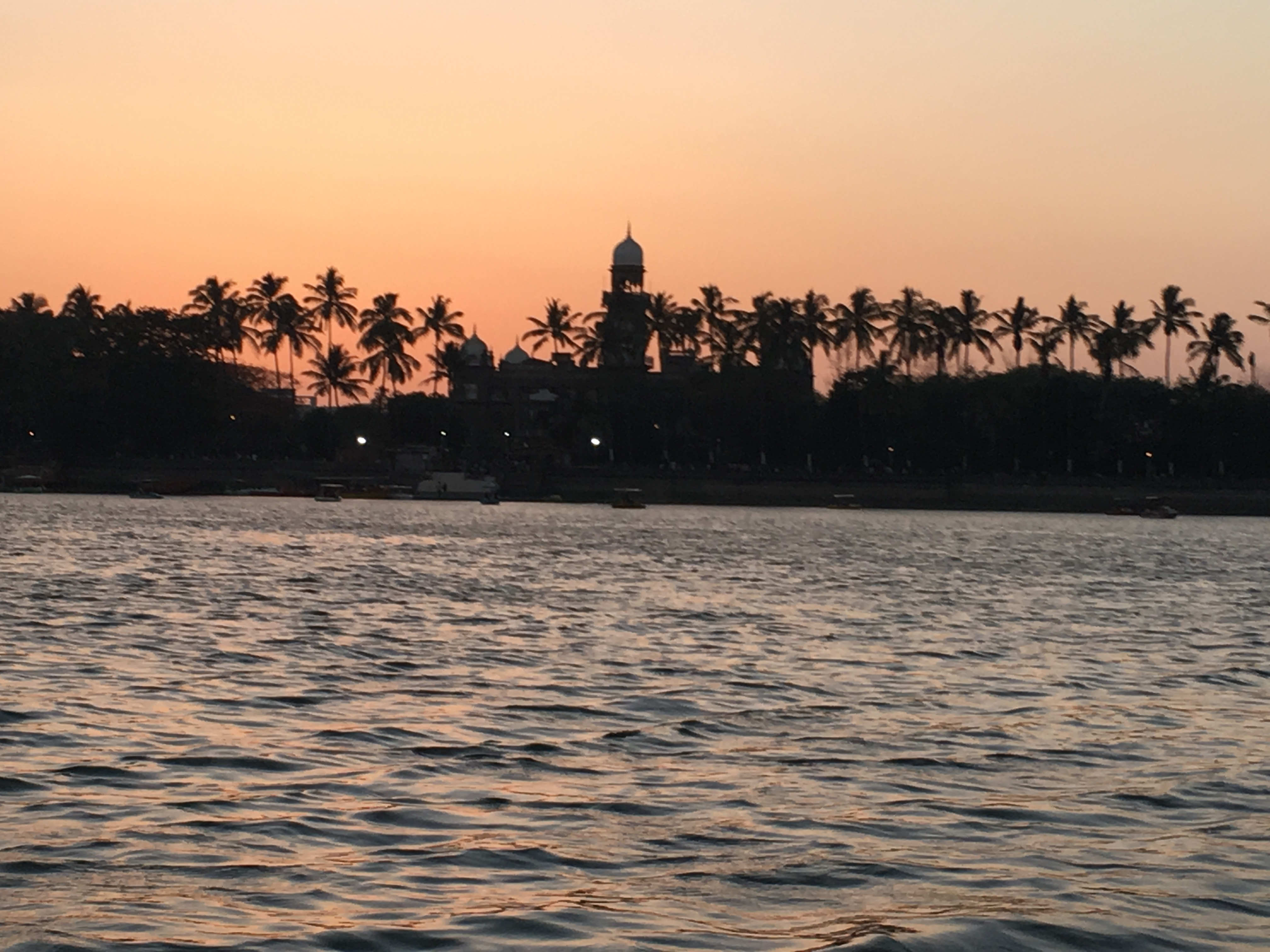 Heritage lake in Kolhapur